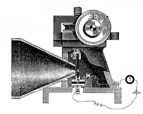 Tasimeter, detect and measure very little thermic differences.